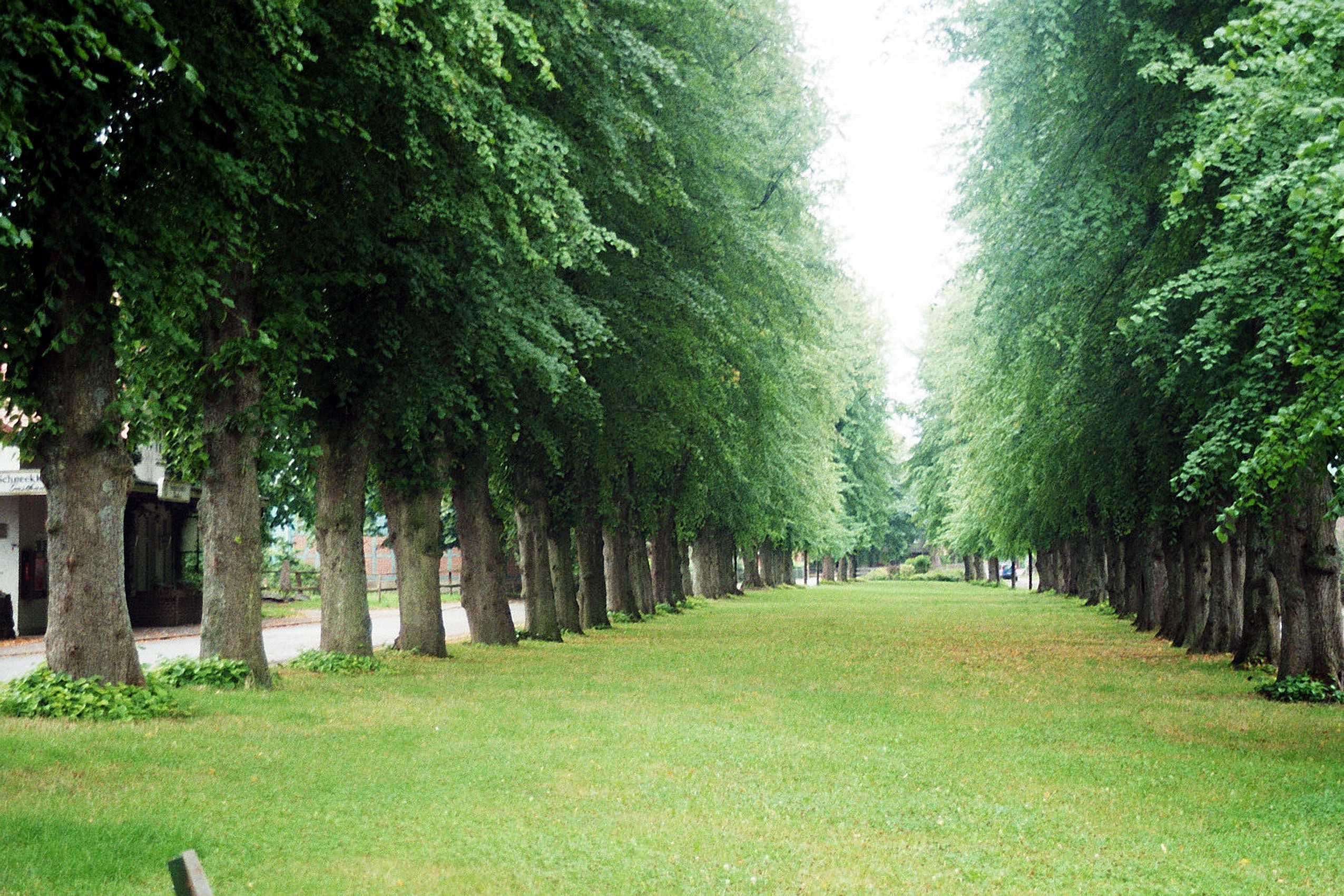 Barsbek, the village green